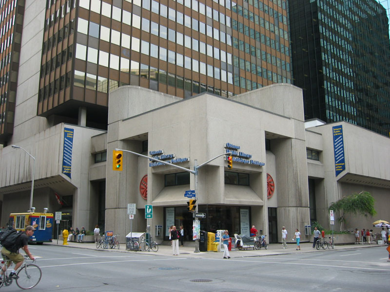 Main branch of Ottawa Public Library, Laurier and Metcalfe St.